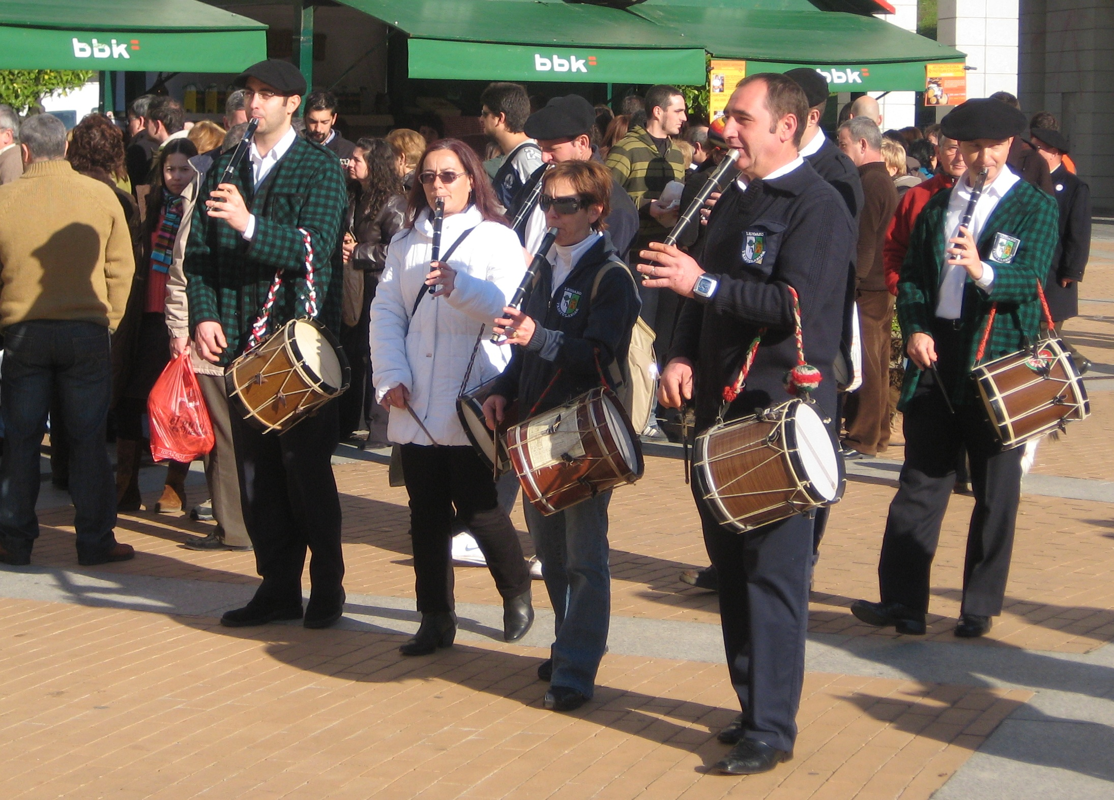 Leioako txistulariak txistu band, playing at Leioa Lejona